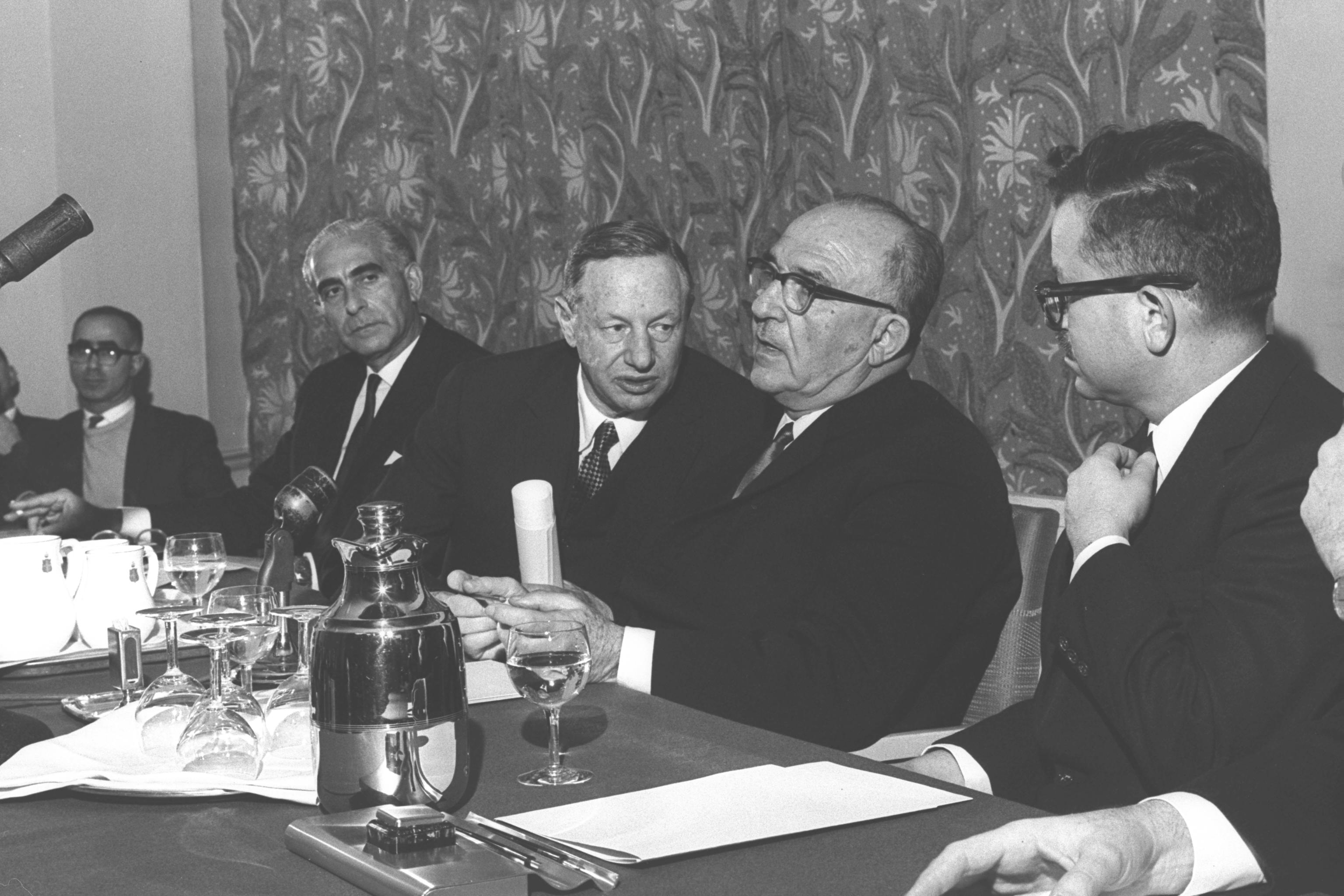 P.M. ESHKOL DURING HIS PRESS CONFERENCE AT THE CLARIDGES IN LONDON. L-R: DIR. ISRAEL PRESS OFFICE LANDOR, ISRAEL AMB. LOURIE, P.M. ESHKOL AND HIS POLITICAL SECR. YAFE